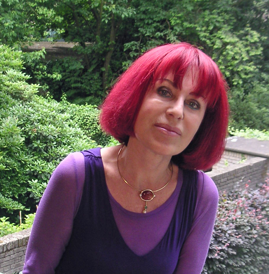 Katrin Alvarez